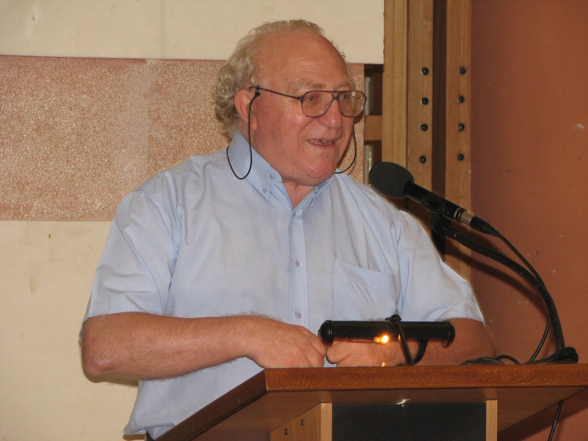 Prof. Peter Serracino Inglott Opening an art installation